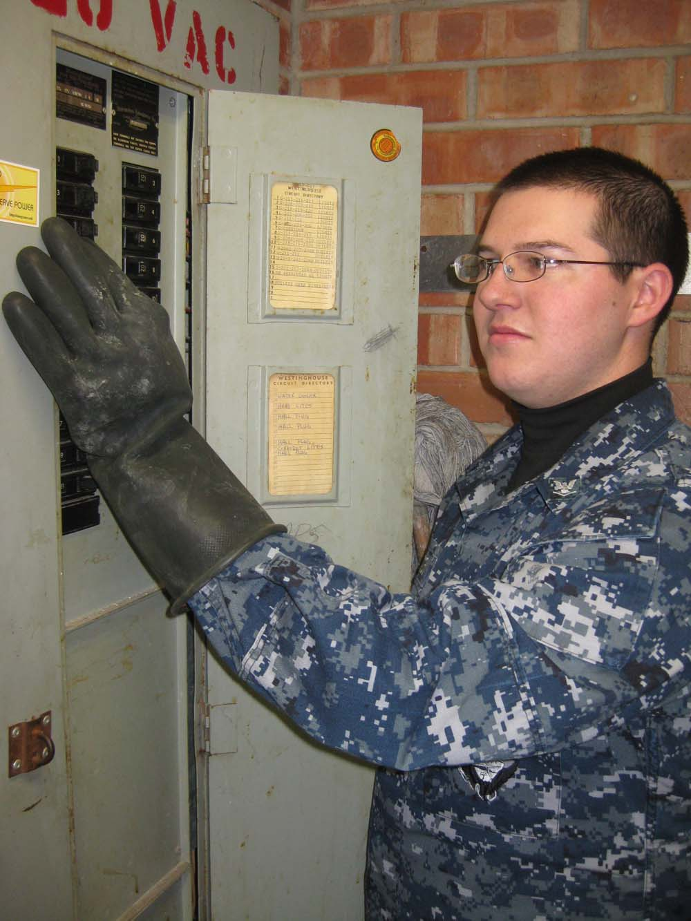 Electrician's Mate Third Class (EM3) Craig Combs working on a 115 V Breaker